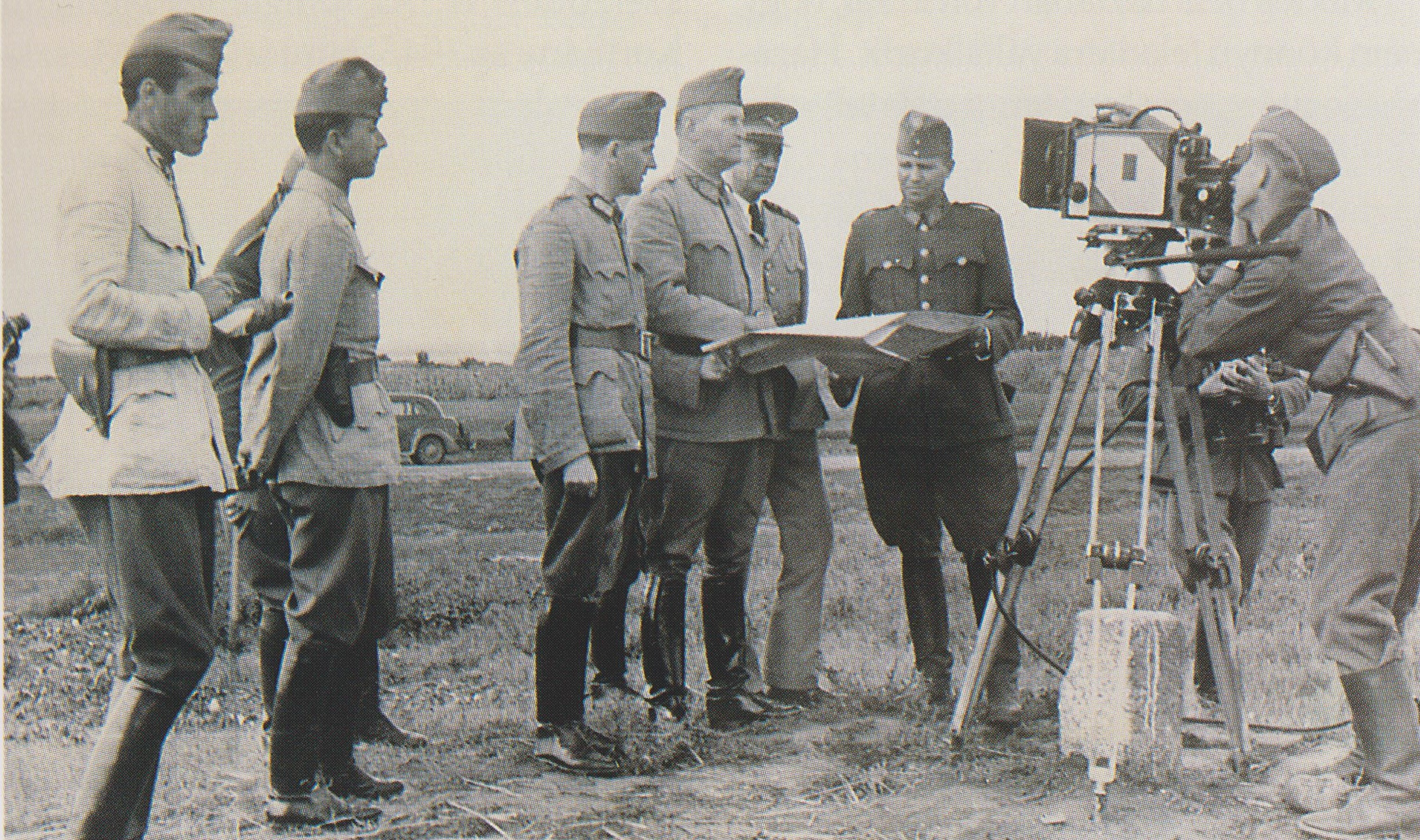 General Béla Miklós gives an interview at the front to German war correspondents in 1941